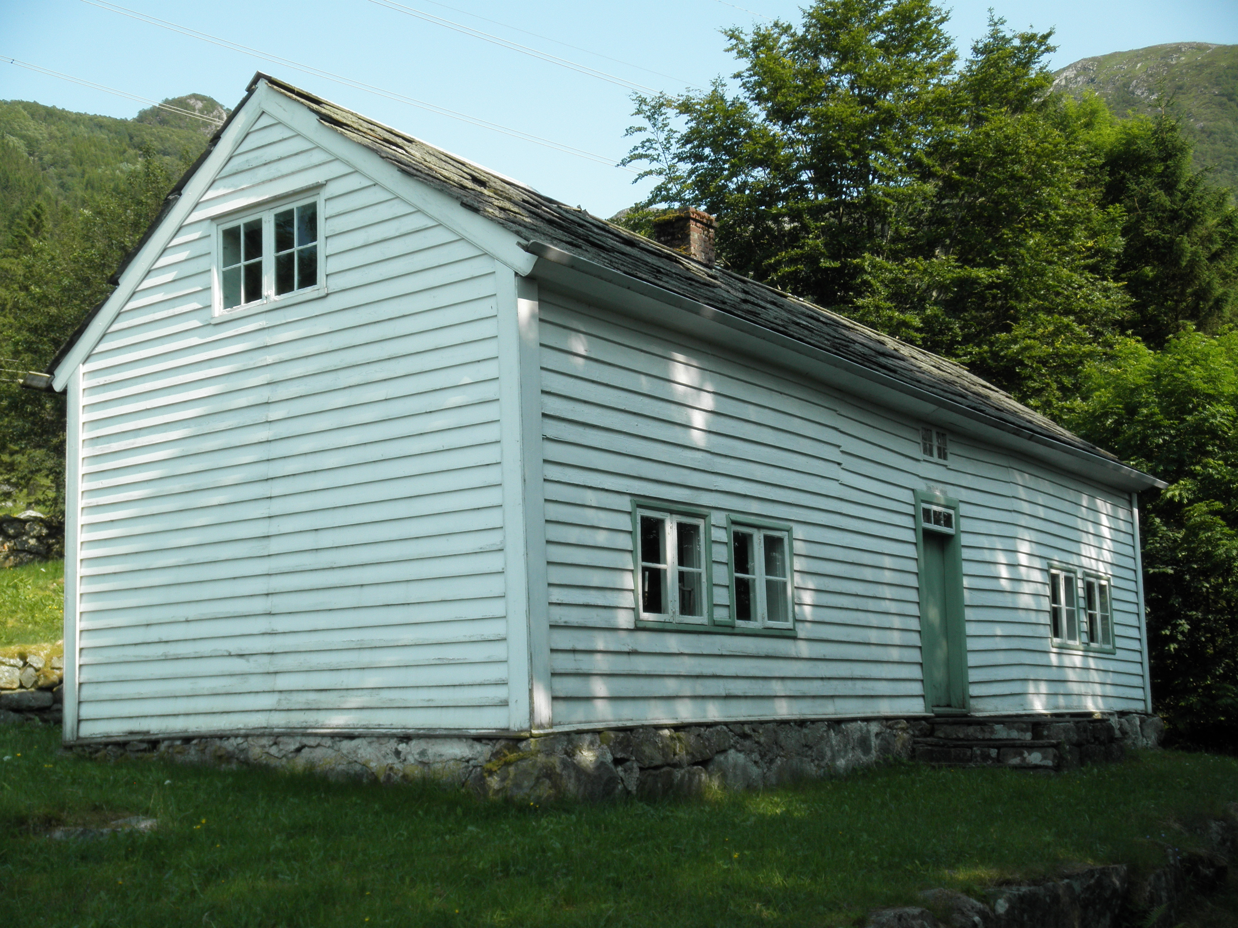 Jens Tvedt's birthplace in Omvikdalen, Kvinnherad, Norway